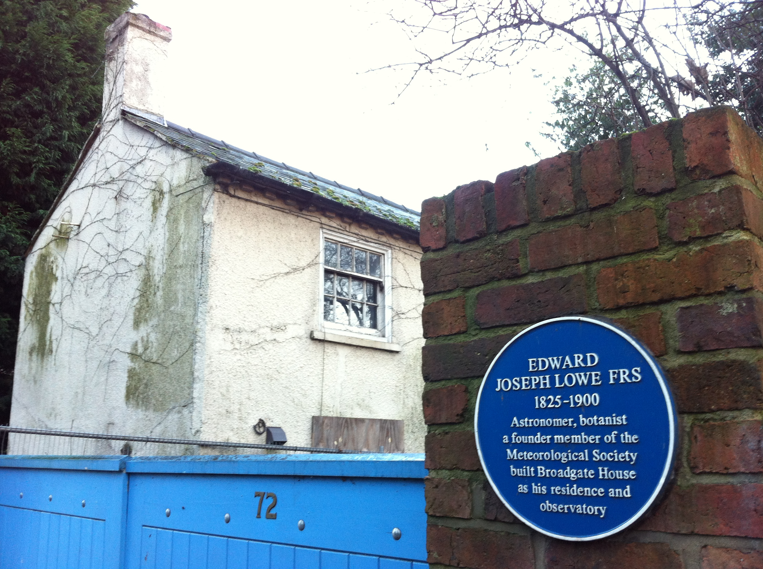 Broadgate House, Beeston, Nottinghamshire. Home of Edward Joseph Lowe